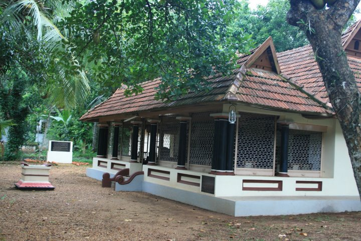 Mooloor Smarakam (Mooloor Memorial) forw:Muloor S.Padmanabha Panicker, poet and social reform activist from the Travancore part of present-day Kerala. Memorial is in Elavamthitta, Pathanamthitta district, Kerala.